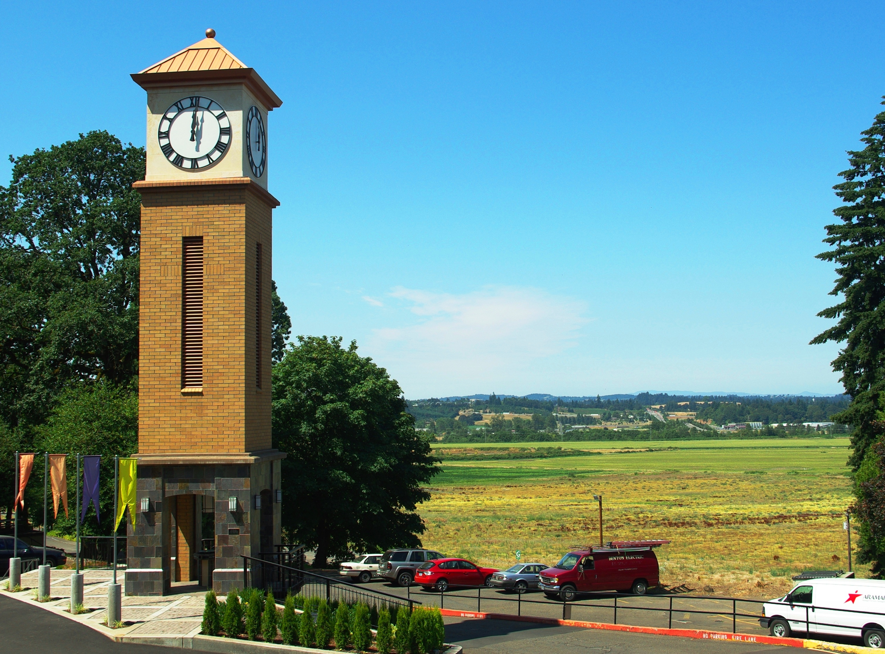 Clock tower at Corban University in Salem, Oregon, USA.